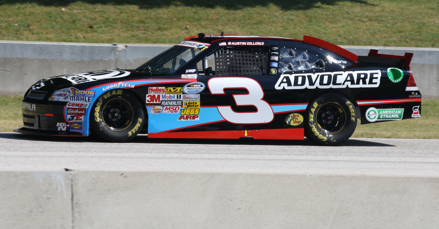 Austin Dillon NASCAR Nationwide Series car at Road America at the 2012 Sargento 200.